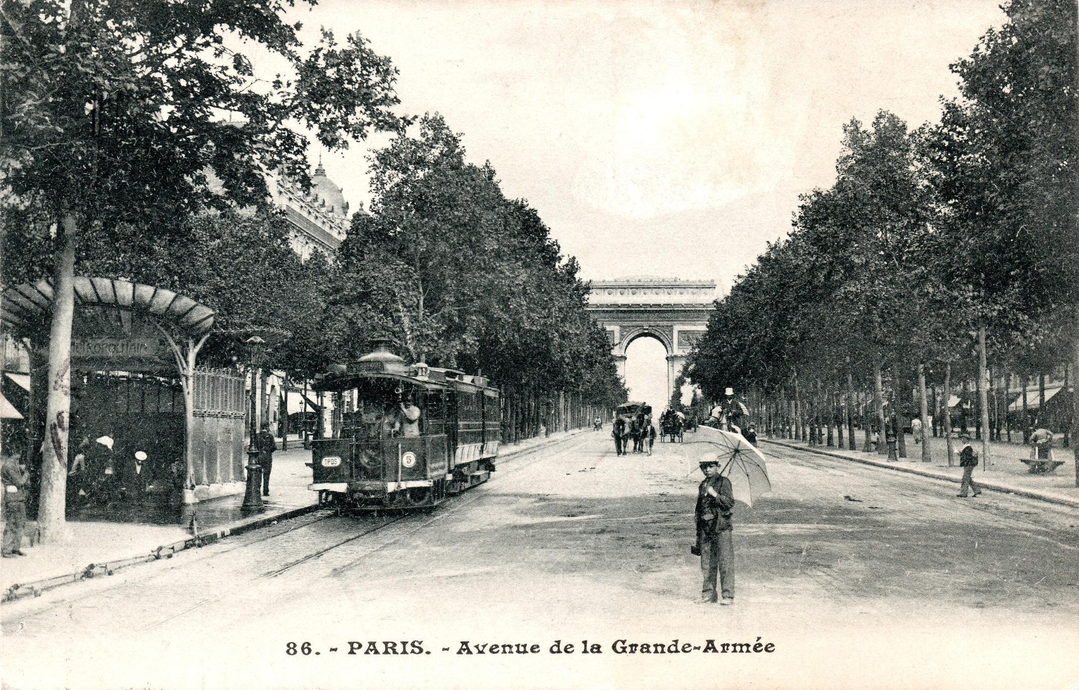 Paris avenue de la Grande Armée, Francq fireless tramway around 1905 - vintage postcard